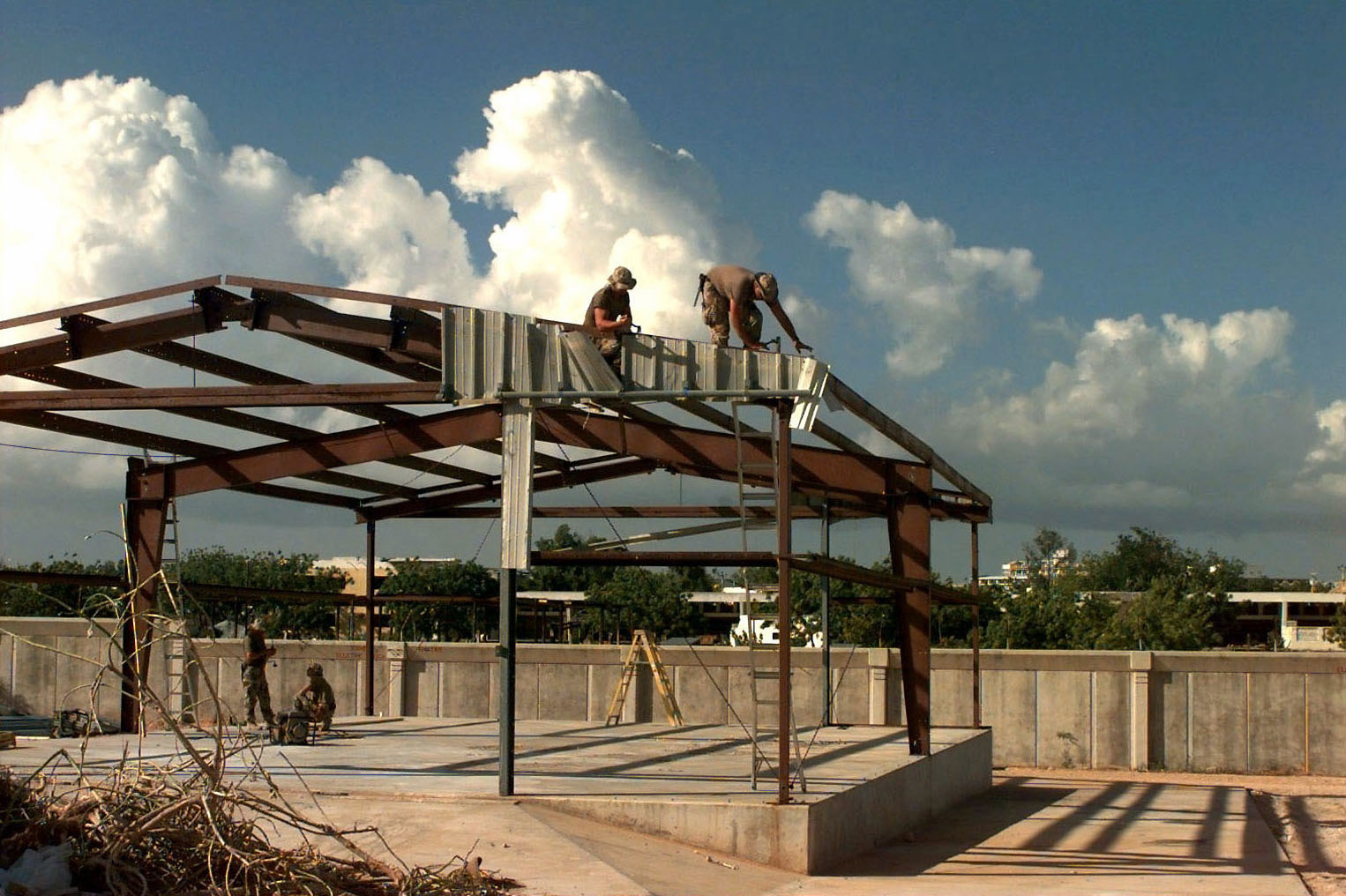 US Navy Seabees remove old metal sheathing from the frame of a building that they will rebuild into a kitchen and dining facility at the US Embassy compound in Mogadishu, Somalia. This mission is in support of Operation Restore Hope.